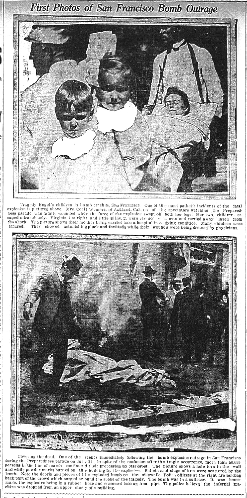 Newspaper photo of the San Francisco Preparedness Day bombings.